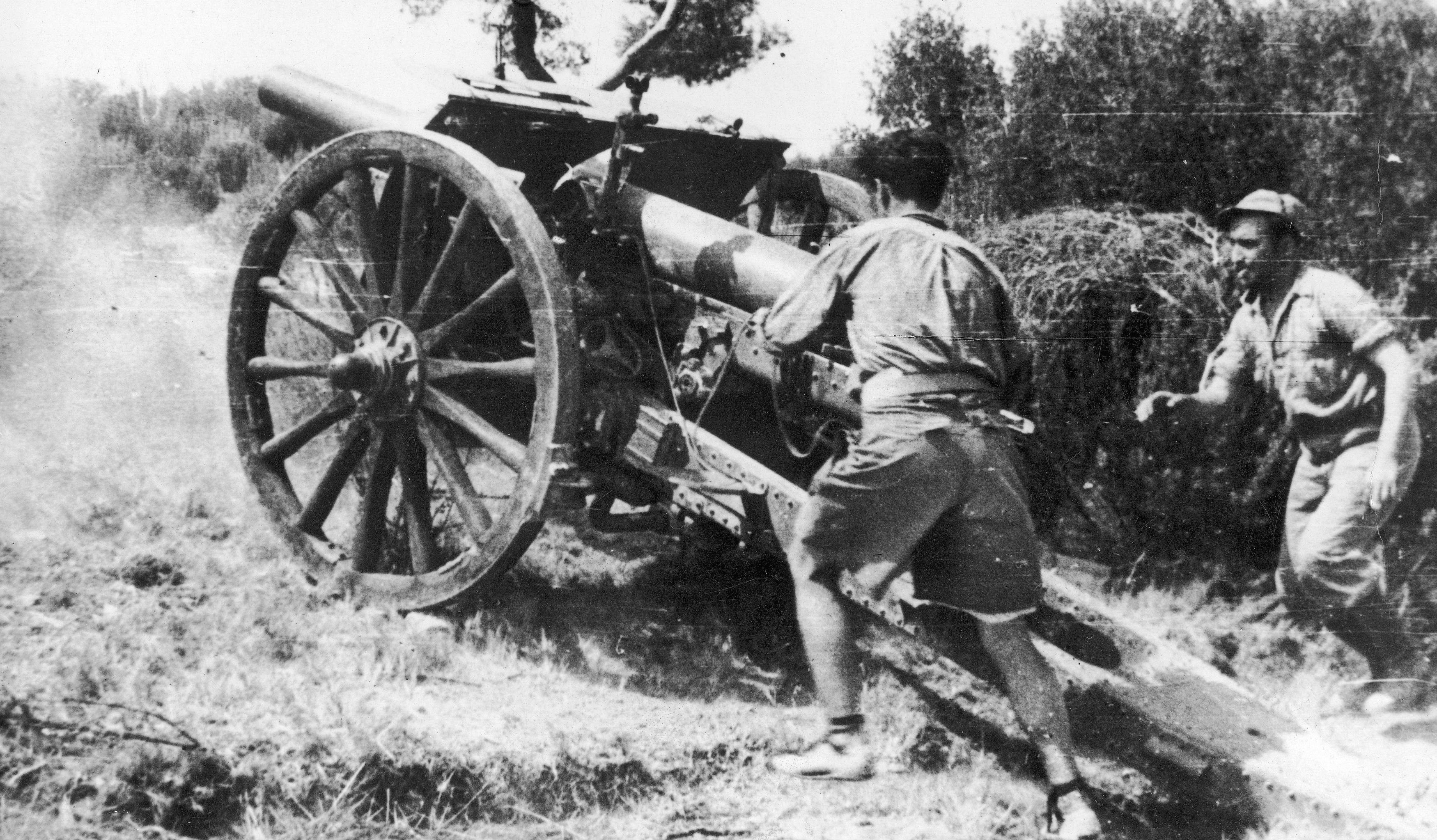 Republican howitzer in the Ebro river, in the Front of Aragon